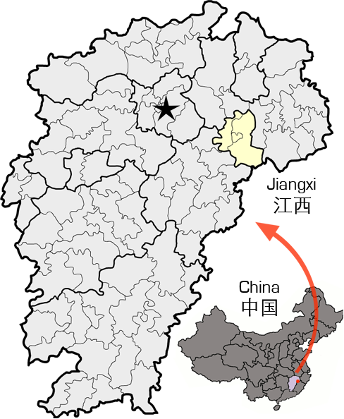 Map showing the location of Yingtan within Jiangxi Province China